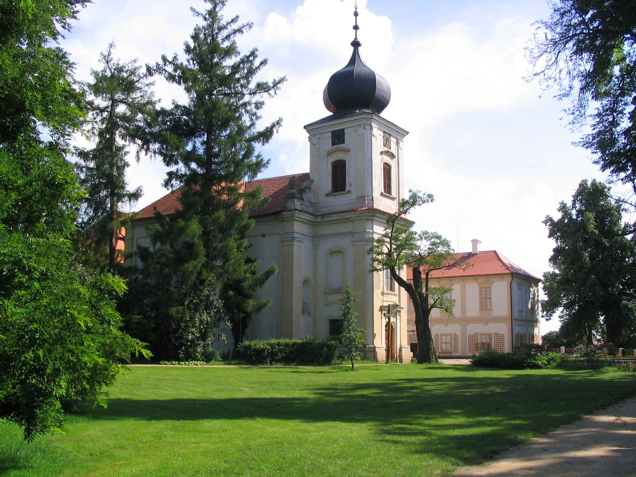 Castle in Loučeň, Czech Republic